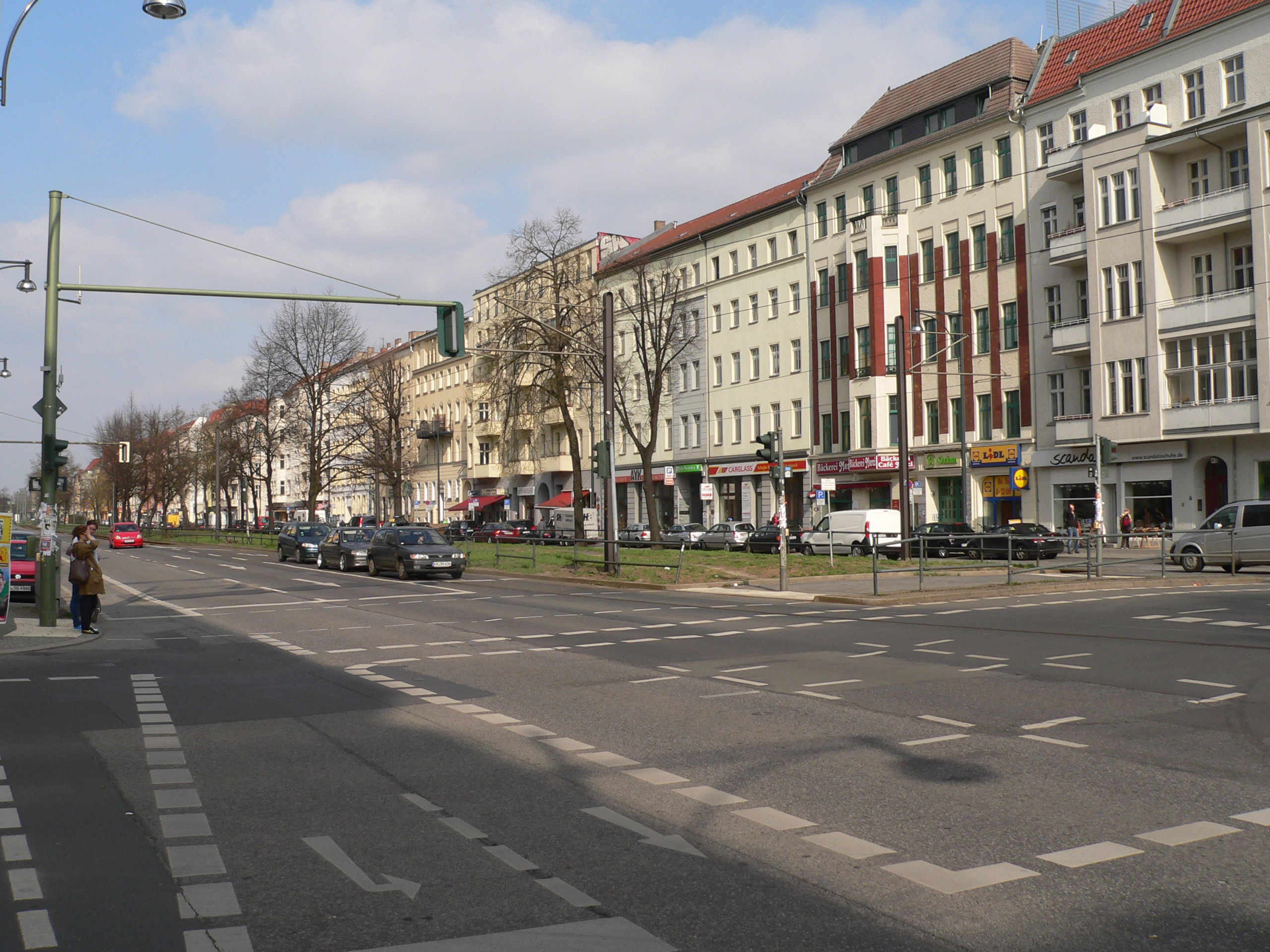 Berlin-Prenzlauer Berg Greifswalder Straße